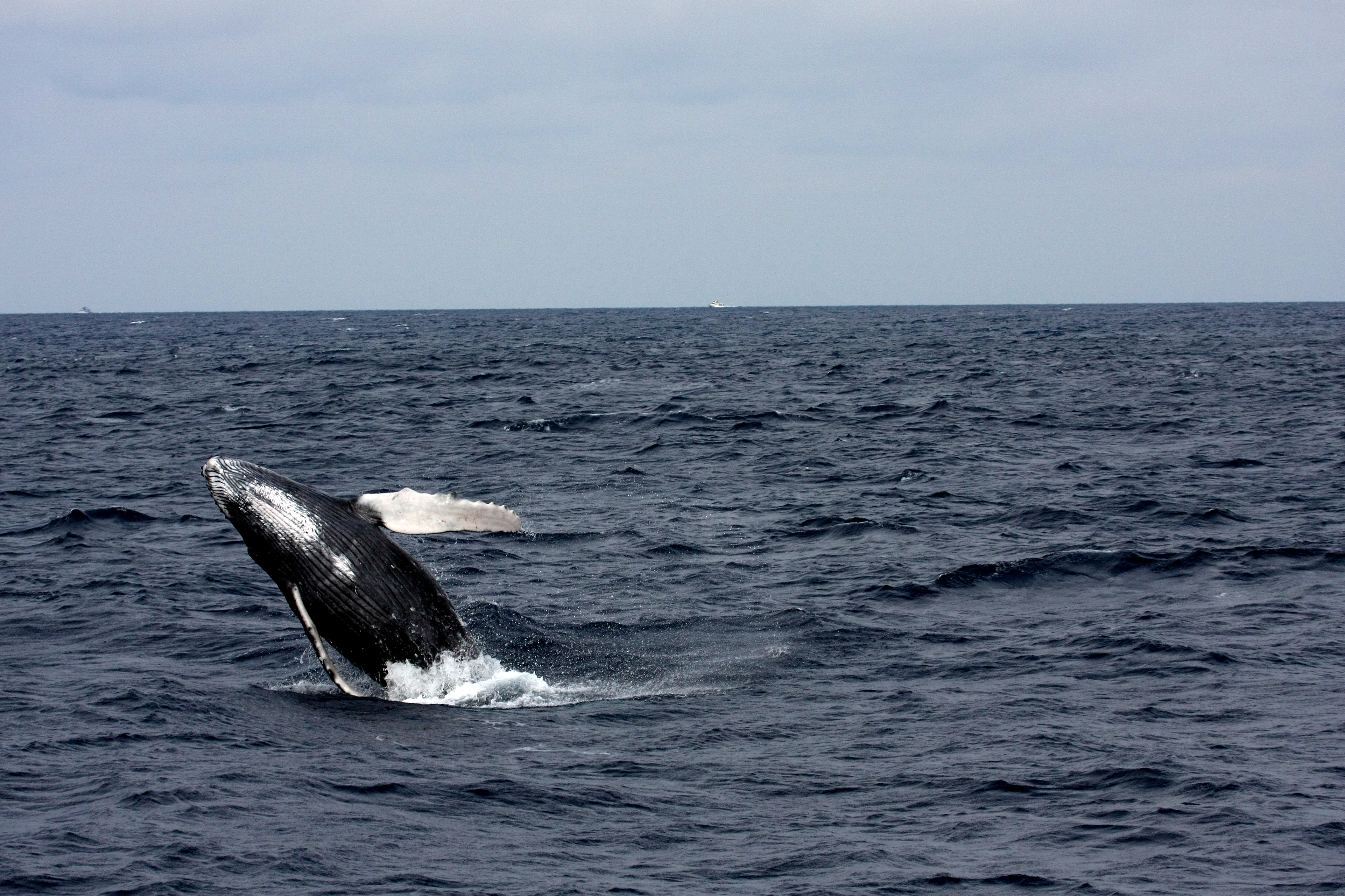 Humpback whale breaching.